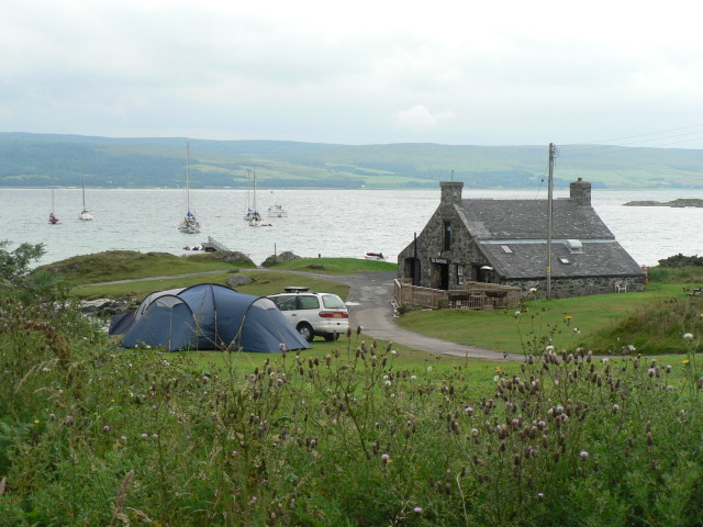 Isle of Gigha: tents by the boathouse A pleasant scene with nice views across the Sound of Gigha.